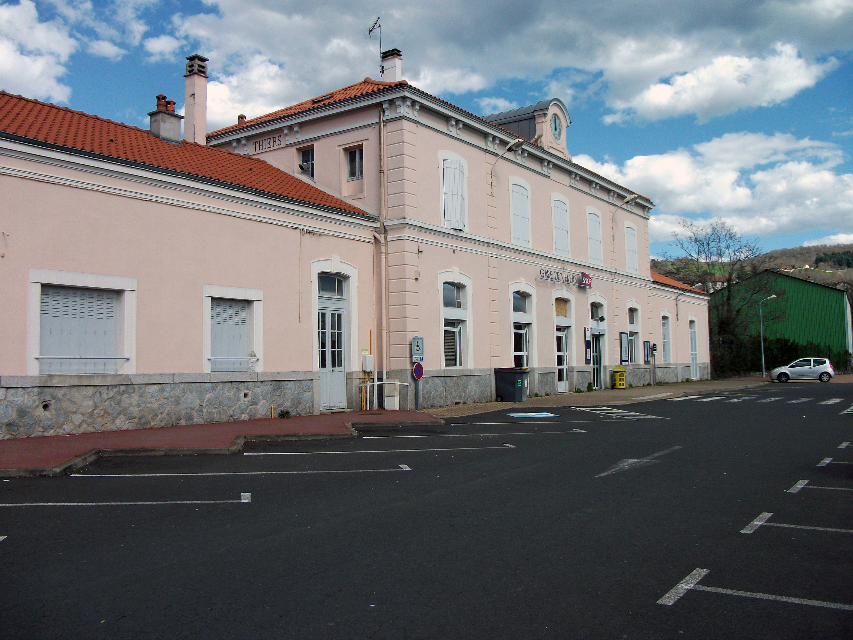 Passenger's building of Thiers railway station, Puy-de-Dôme [10647]